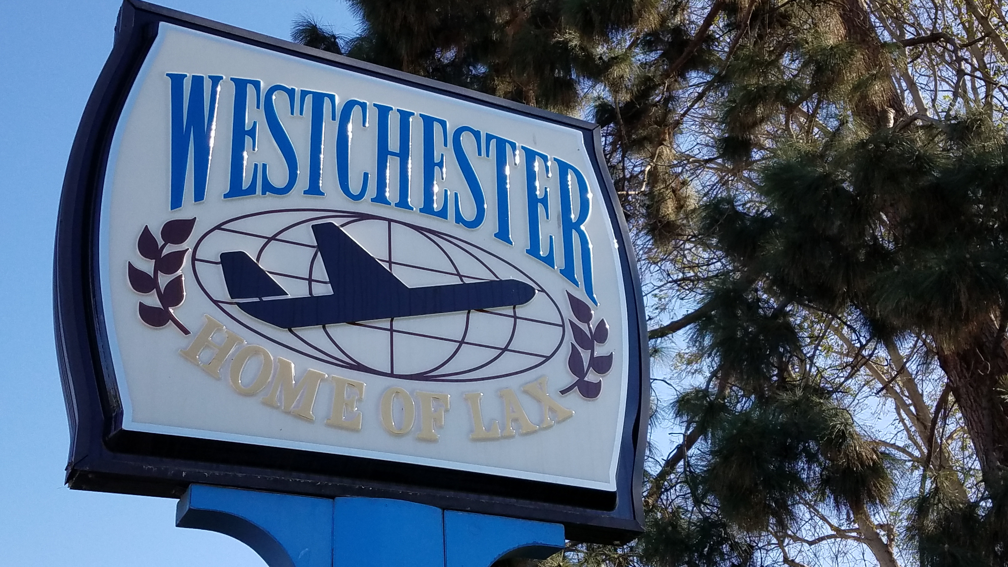 Photo of refurbished town sign in Westchester Rec Center, Los Angeles, CA.